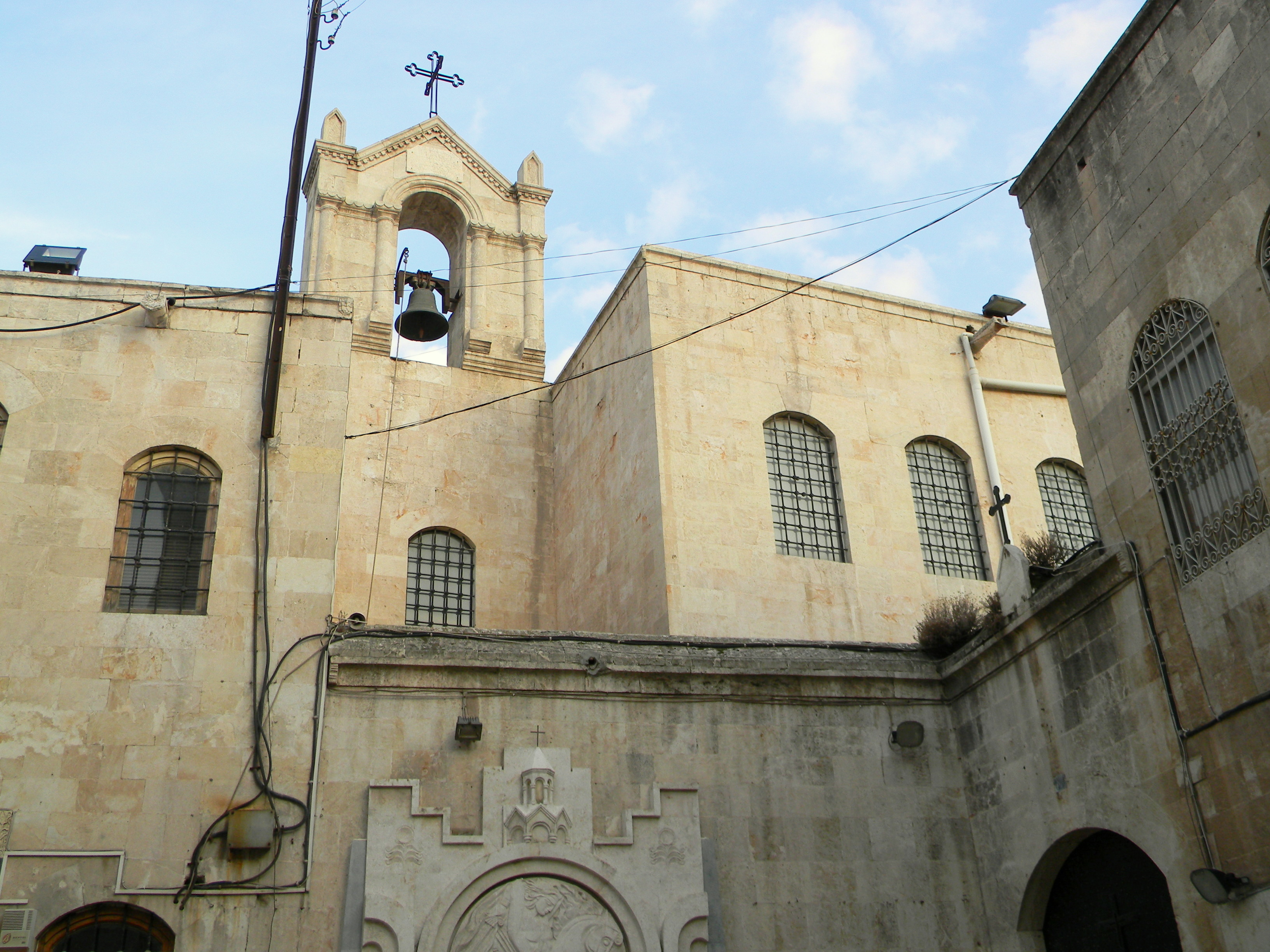 The belfry of the Greek Orthodox Church of the Dormition of Our Lady, seen from the yard of the Forty Martyrs Armenian Cathedral. =